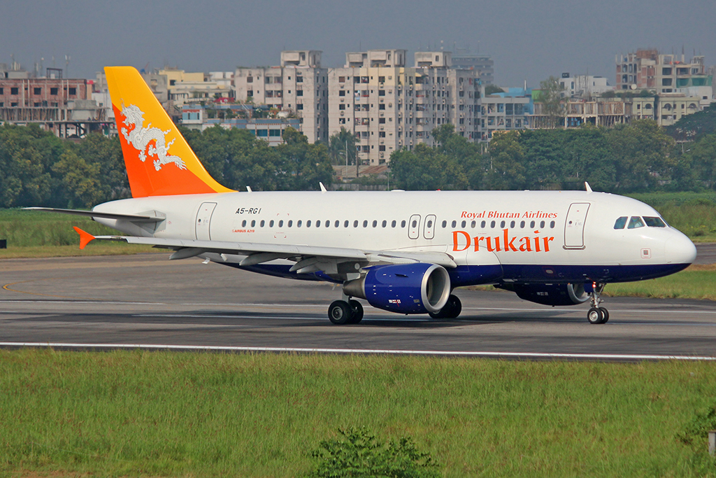 Druk 319 Ready for her departure to Bangkok through runway 14 of VGHS.